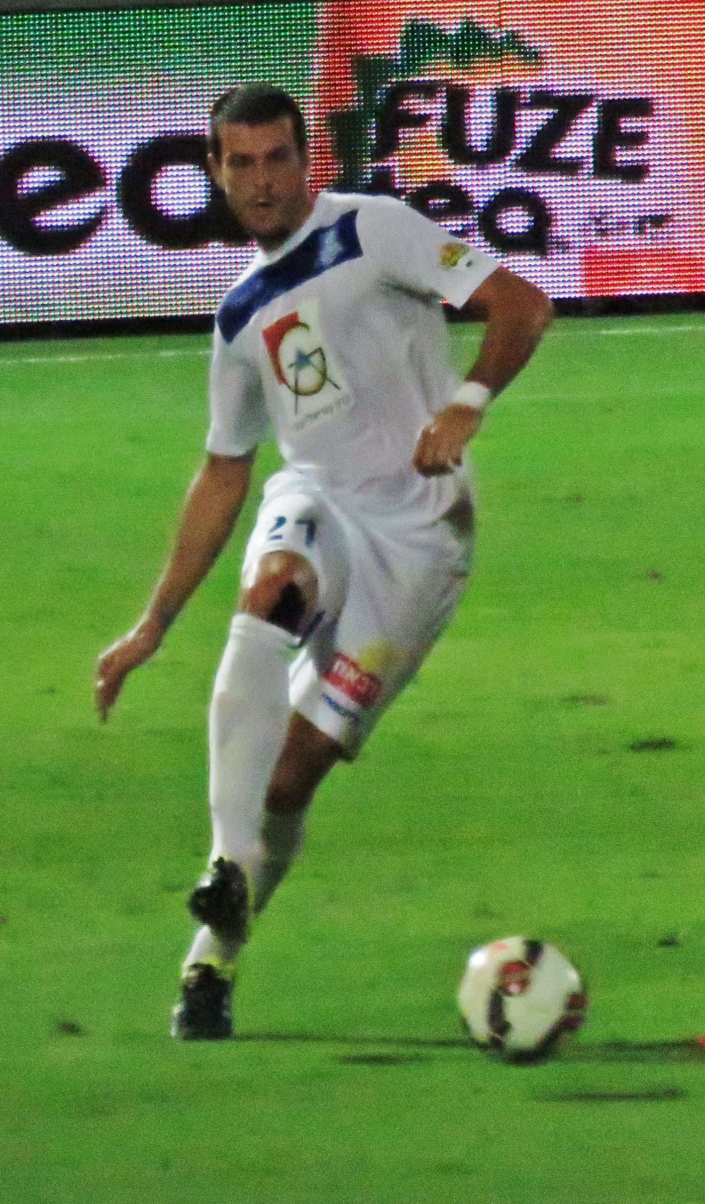 Bnei Yehuda Tel Aviv vs. Hapoel Acre - August 31, 2015